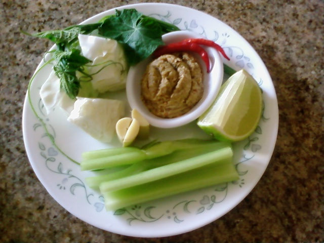 Tirk Krueng, Mashed herbs and spices dipping sauce with Vegetable platter.